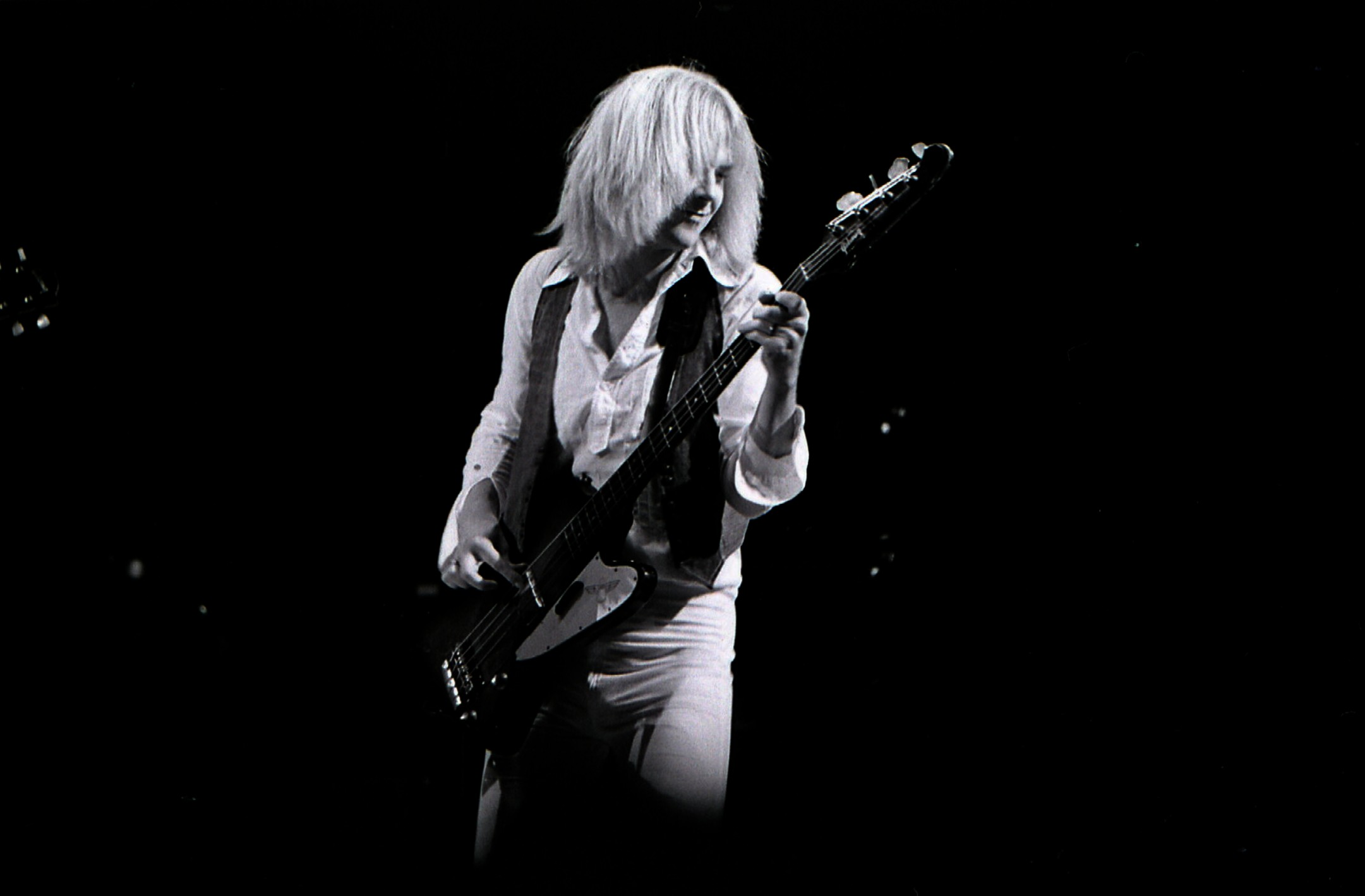 Tom Hamilton of Aerosmith, Maple Leaf Gardens, Toronto, 1975